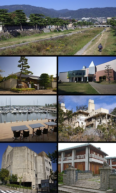 Ashiya montage